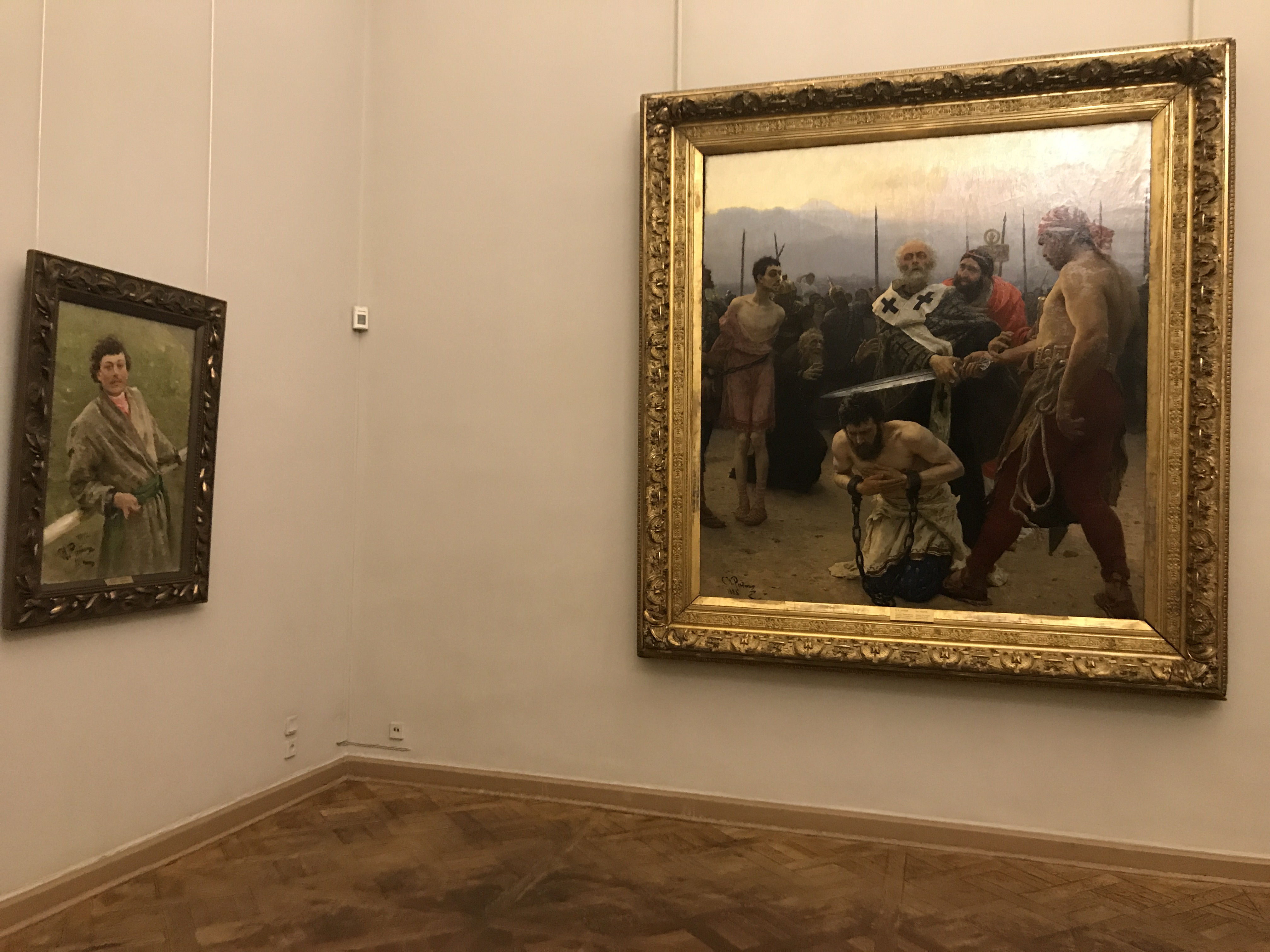 "St Nicholas of Myra saves three innocents from death" (painting by Ilya Repin, 1888) in the State Russian Museum